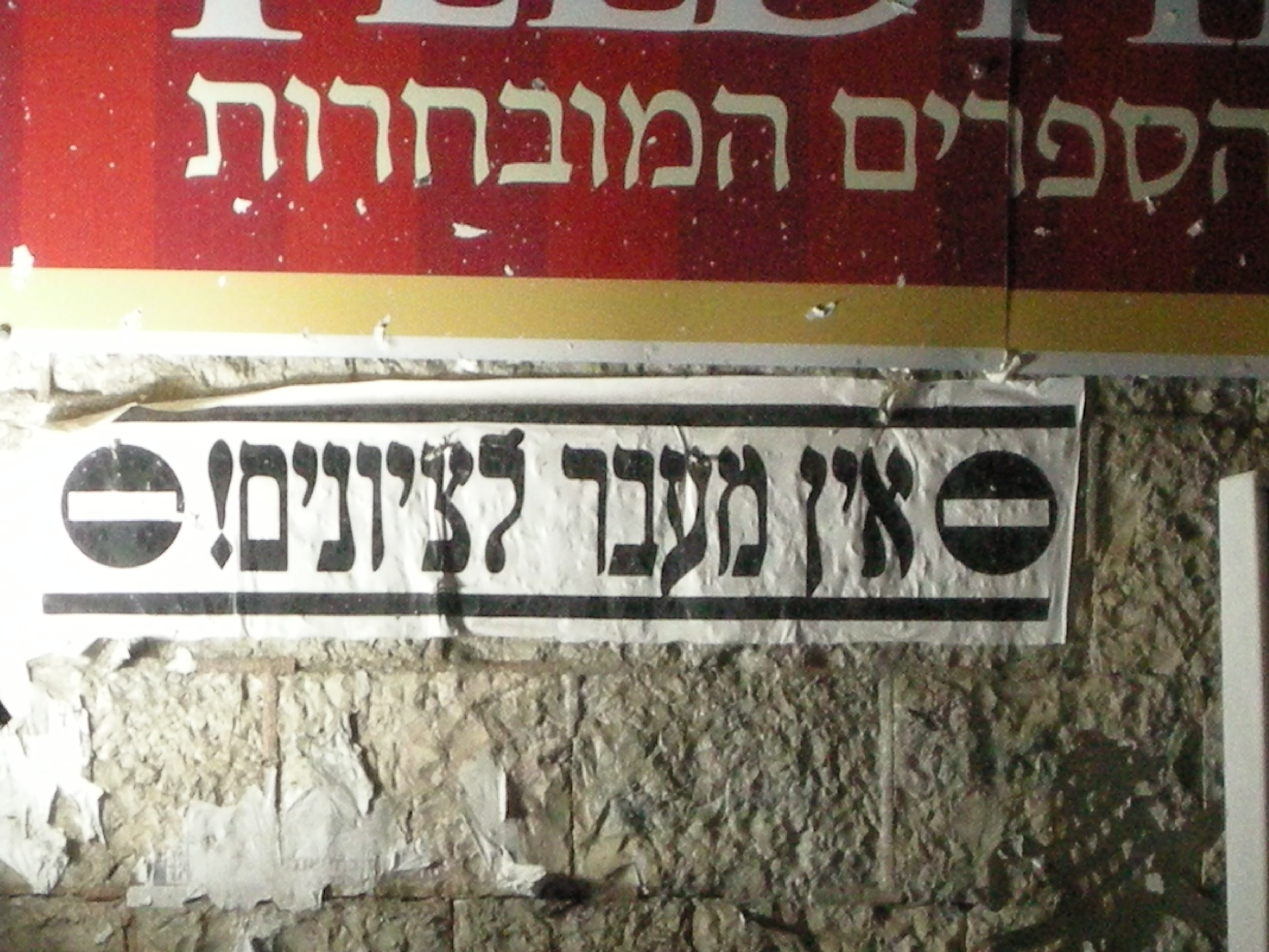 Mea Shearim